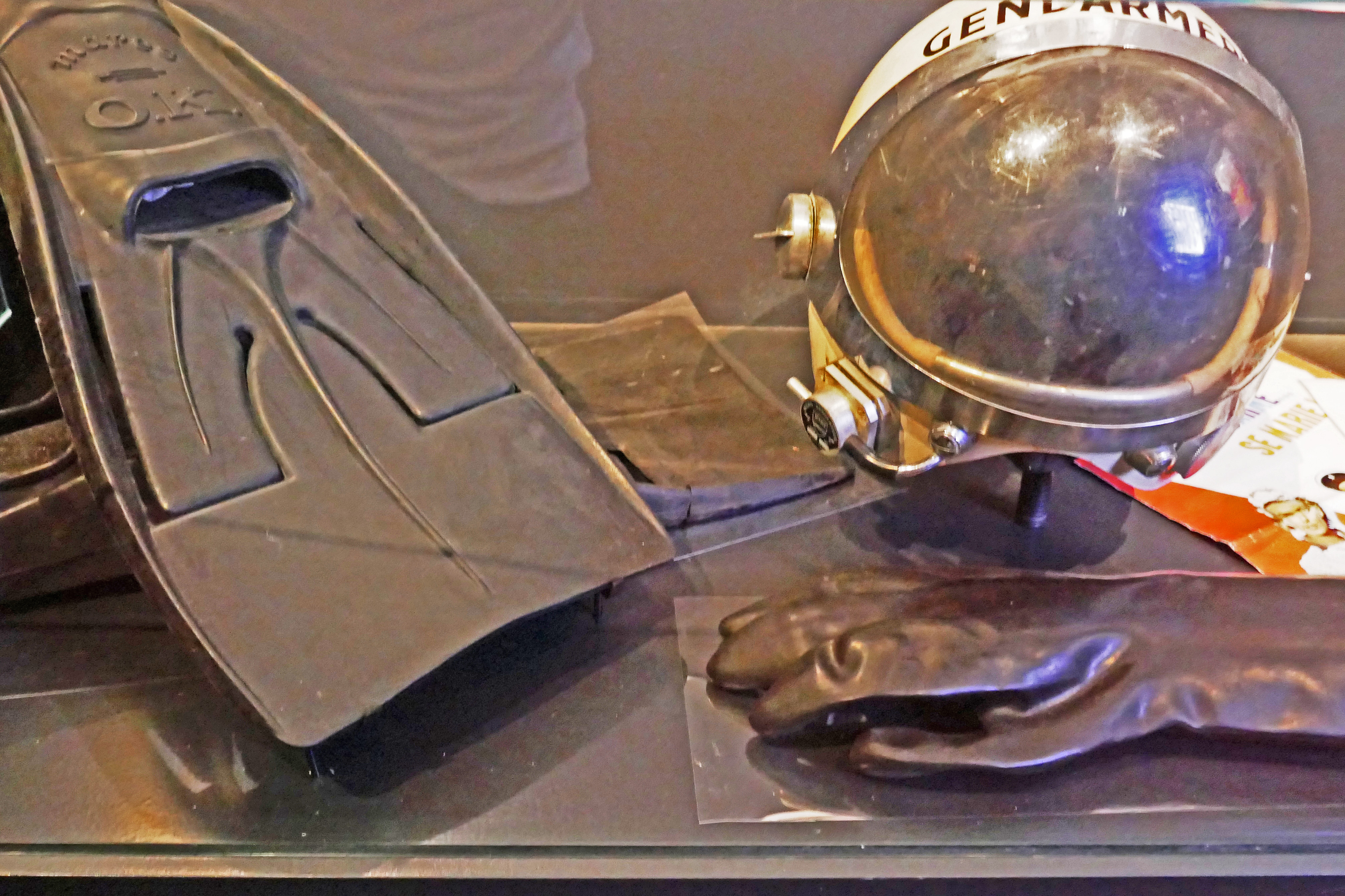 Diving helmet, gloves and flippers used by Louis de Funès in the movie Le gendarme se marie. Museum of Gendarmerie and Cinema, Saint-Tropez, August 2015.